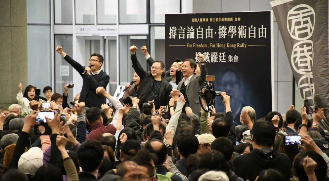 香港千人集會撐戴耀廷。 (美國之音特約記者 湯惠芸拍攝 )